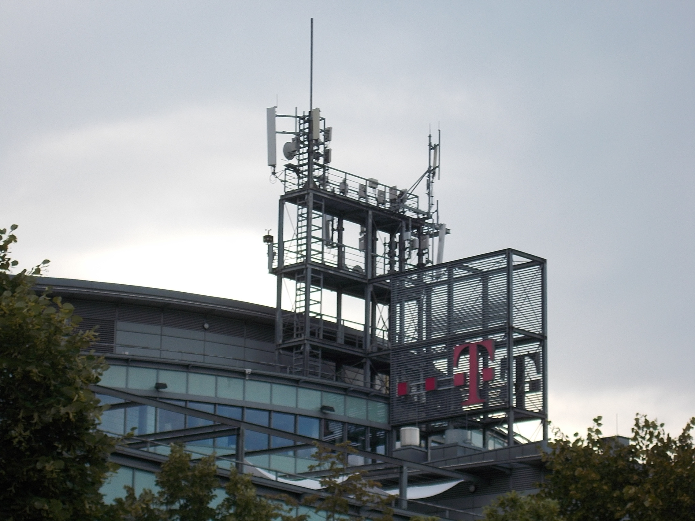 Infopark G (Telekom) building, roof. - Budapest District XI.